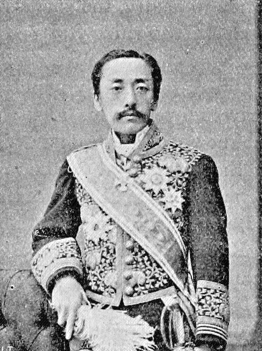 Viscount Ogyu Uzuru